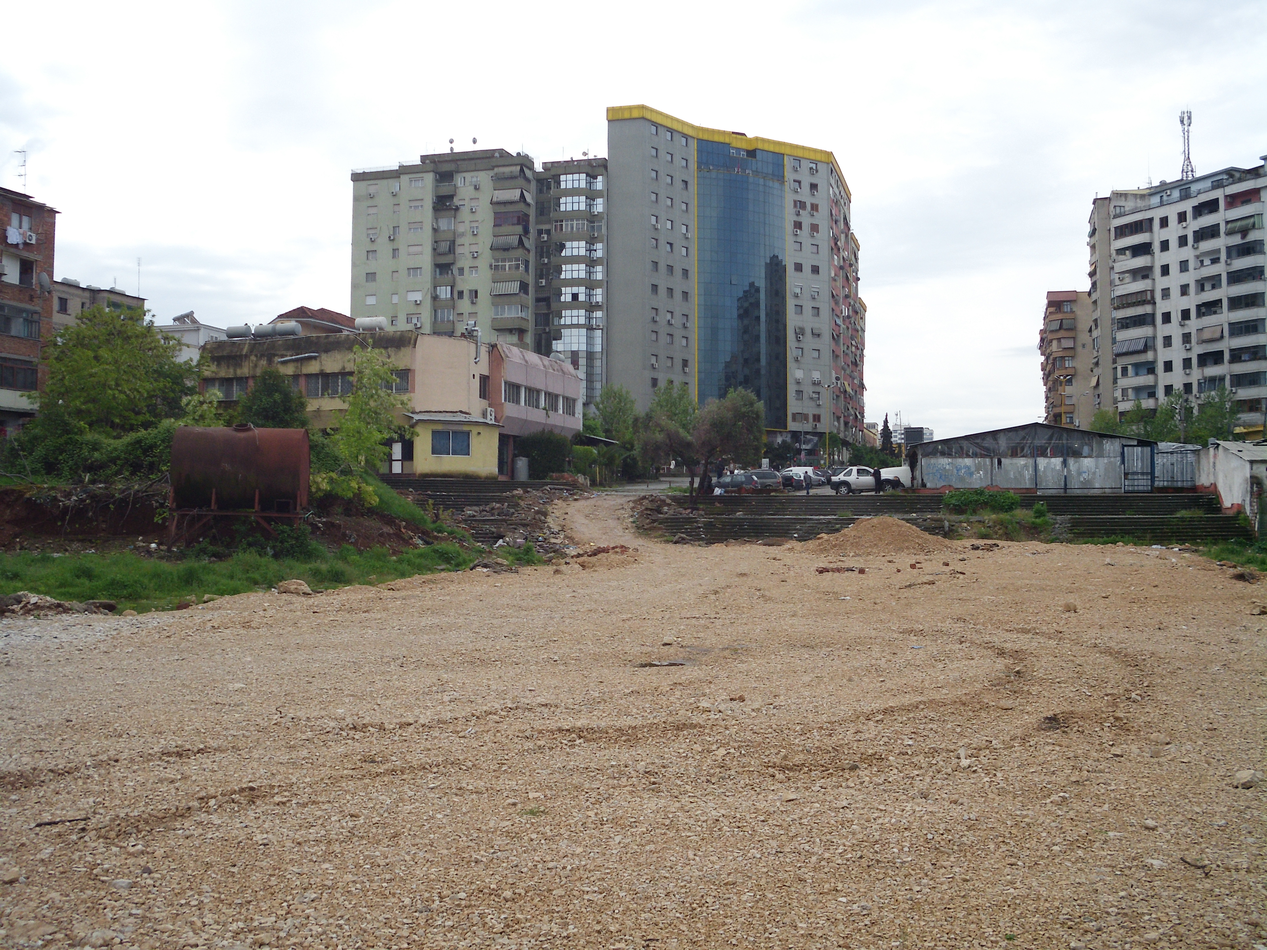 A construction site for an extended boulevard in Tirana, Albania, at the site of a former central train station. The building of that station (which was closed in September 2013) can be seen in the left corner.